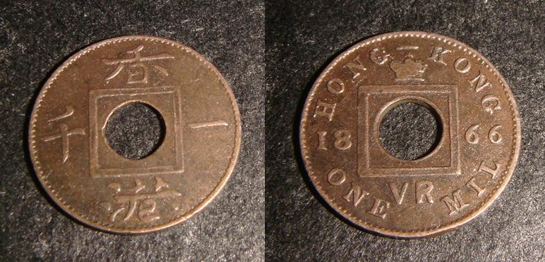 HK 1 mil coin